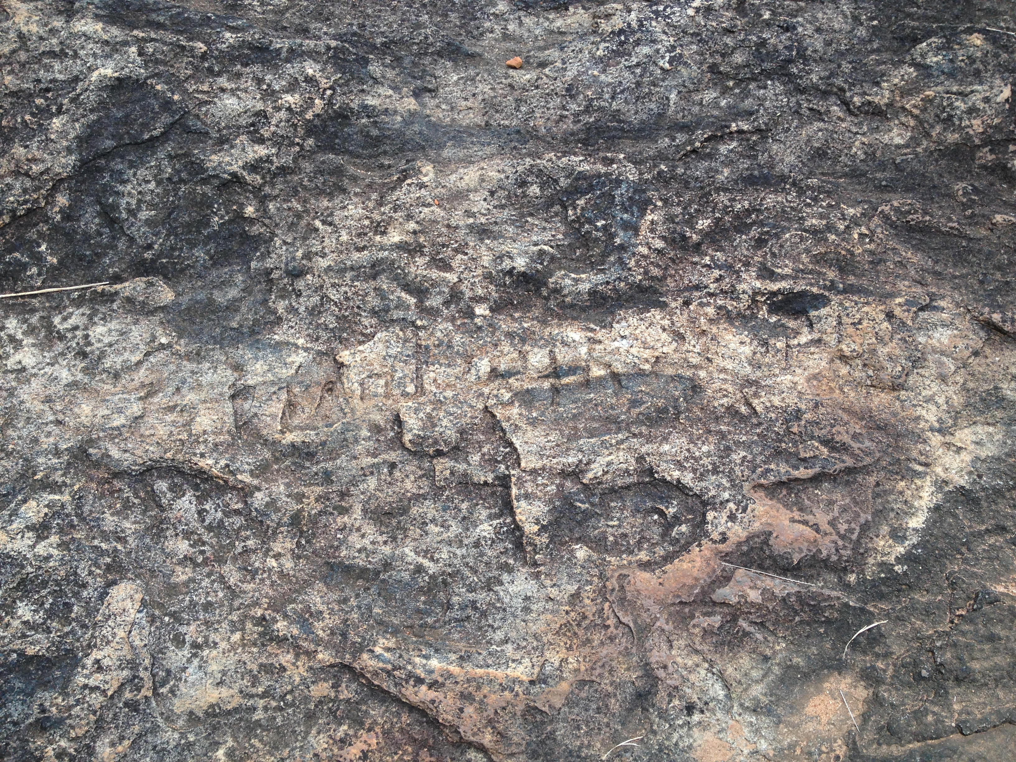 An inscription at the Vihara premises